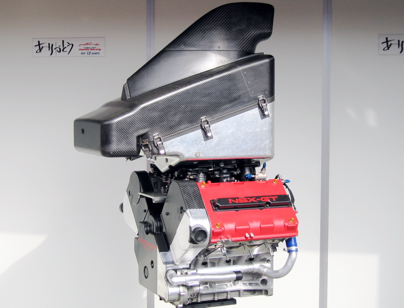 Engine for GT500class NSX-GT at the Super GT 2009series.